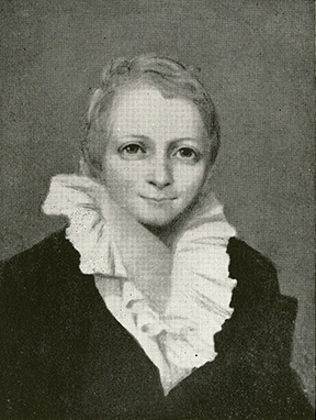 Unidentified artist of the American School, about 1809. "Hugh Waddell, 1799-1879." North Carolina Portrait Index, 1700-1860. Chapel Hill: UNC Press. p. 234. (Digital page 248).